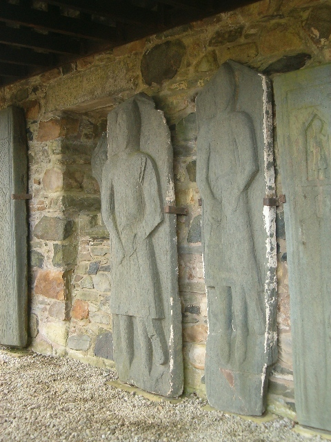 Late medieval graveslabs at Kilberry